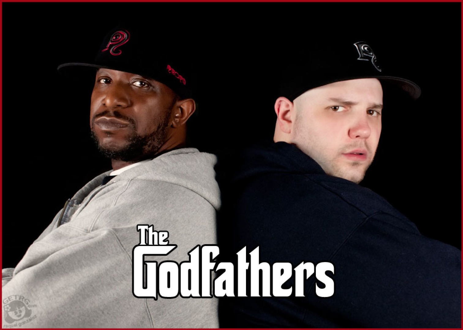 Promo photo of Kool G Rap & Necro for The Godfathers album.